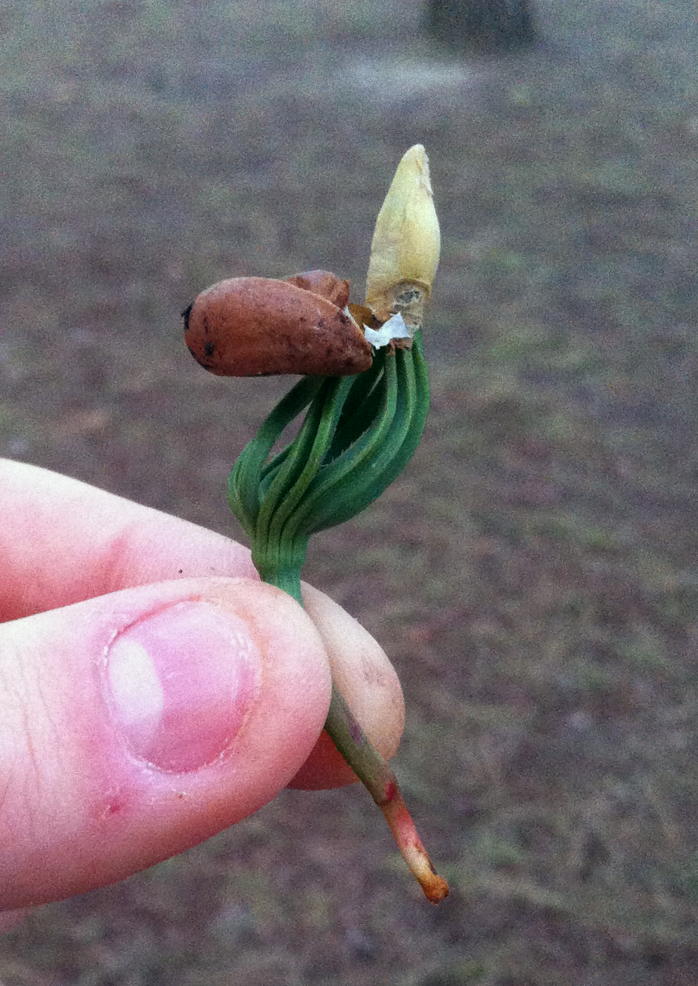 Pine nut with shell, seed, stalk and roots